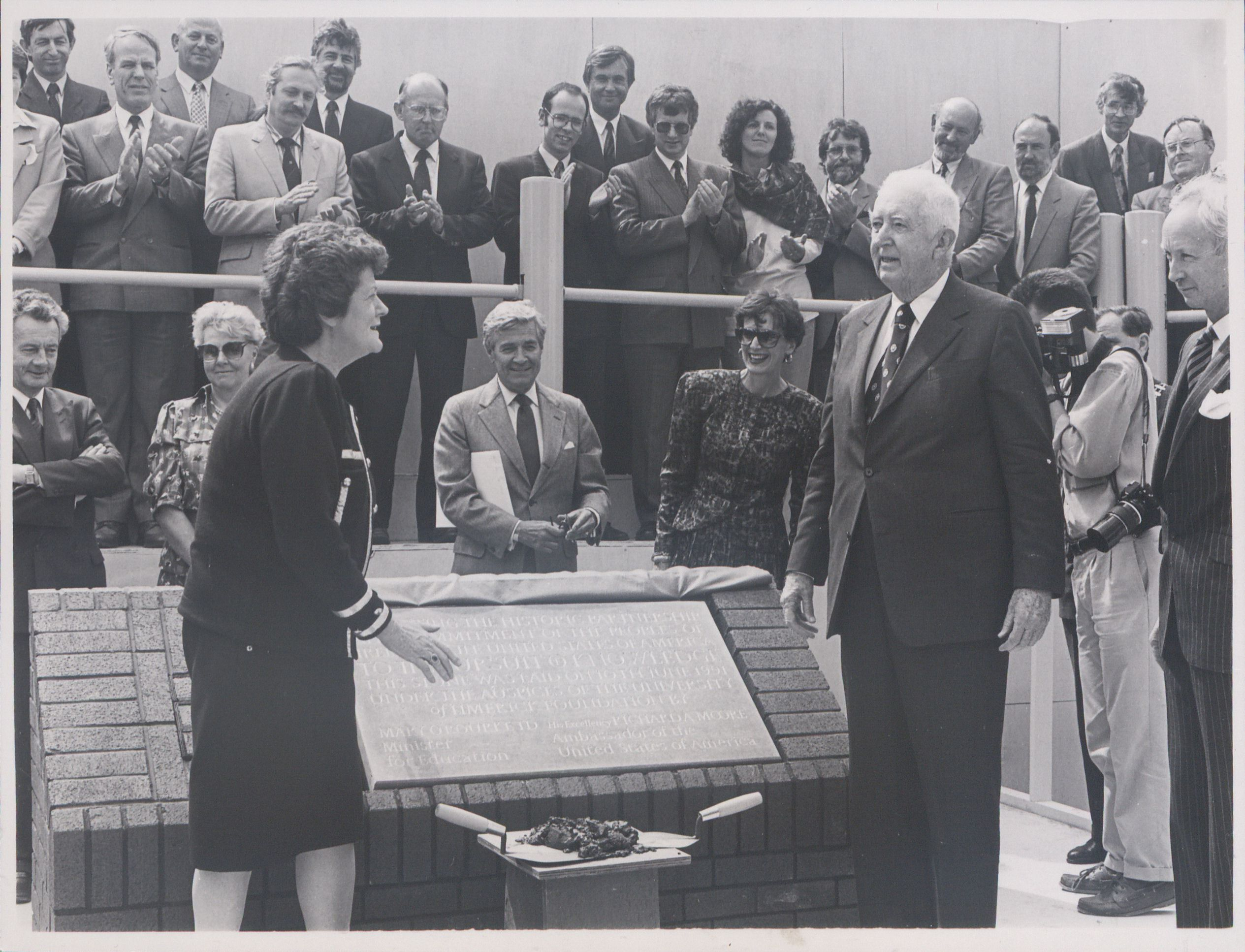 By Mary O'Rourke T.D. and His Excellency Mr Richard A Moore, US Ambassador to Ireland